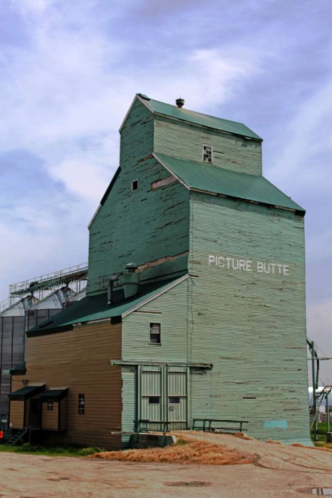 Former Alberta Wheat Pool Elevator in Picture Butte, Alberta